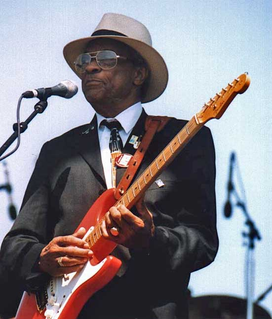 Hubert Sumlin at the Long Beach Blues Festival, California